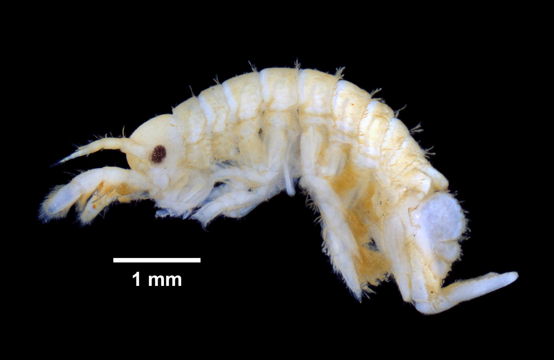 PRESERVED_SPECIMEN; ; 70% alc.; Det. by: Roland L. Wigley; GM image; Gray Museum; IZ number 82279; lot count 1; original catalog number YPM 30471; original catalog number GM 1219; 1967-05-03T00:00:00Z